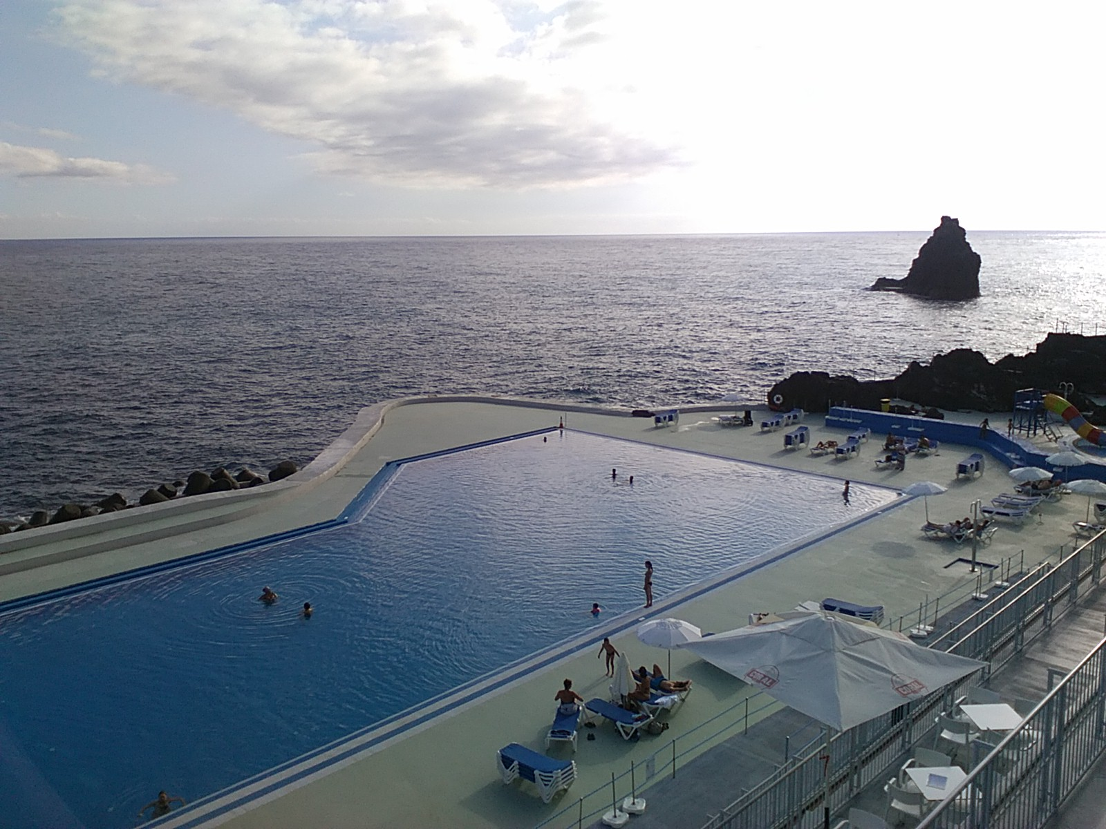 Lido Bathing Complex, Funchal, Madeira